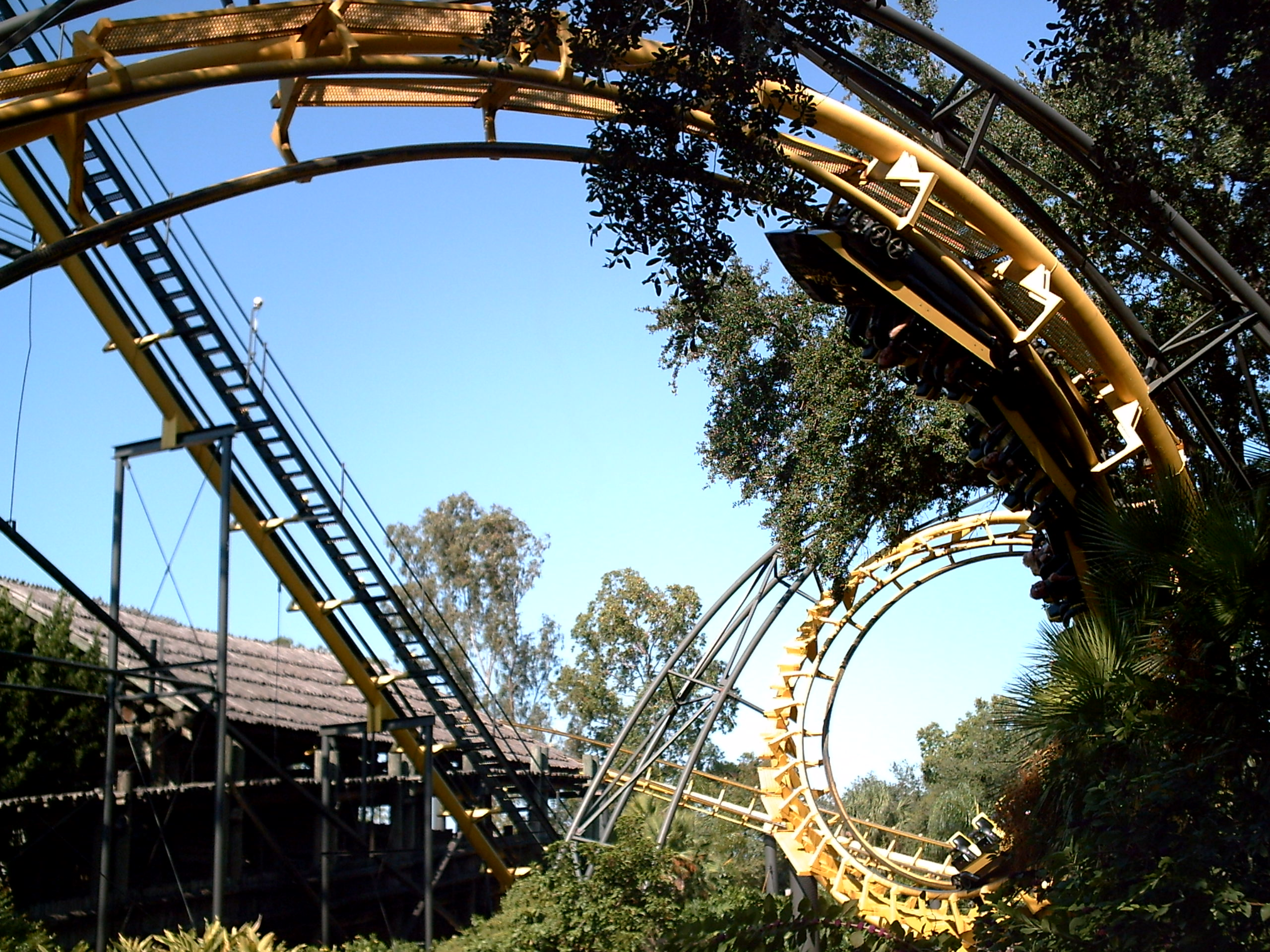 Python slithering through its double corkscrew element. Picture taken on October 30th, 2005 by Carl F.